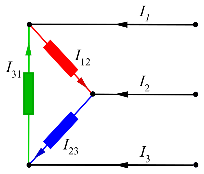 3-phase currents